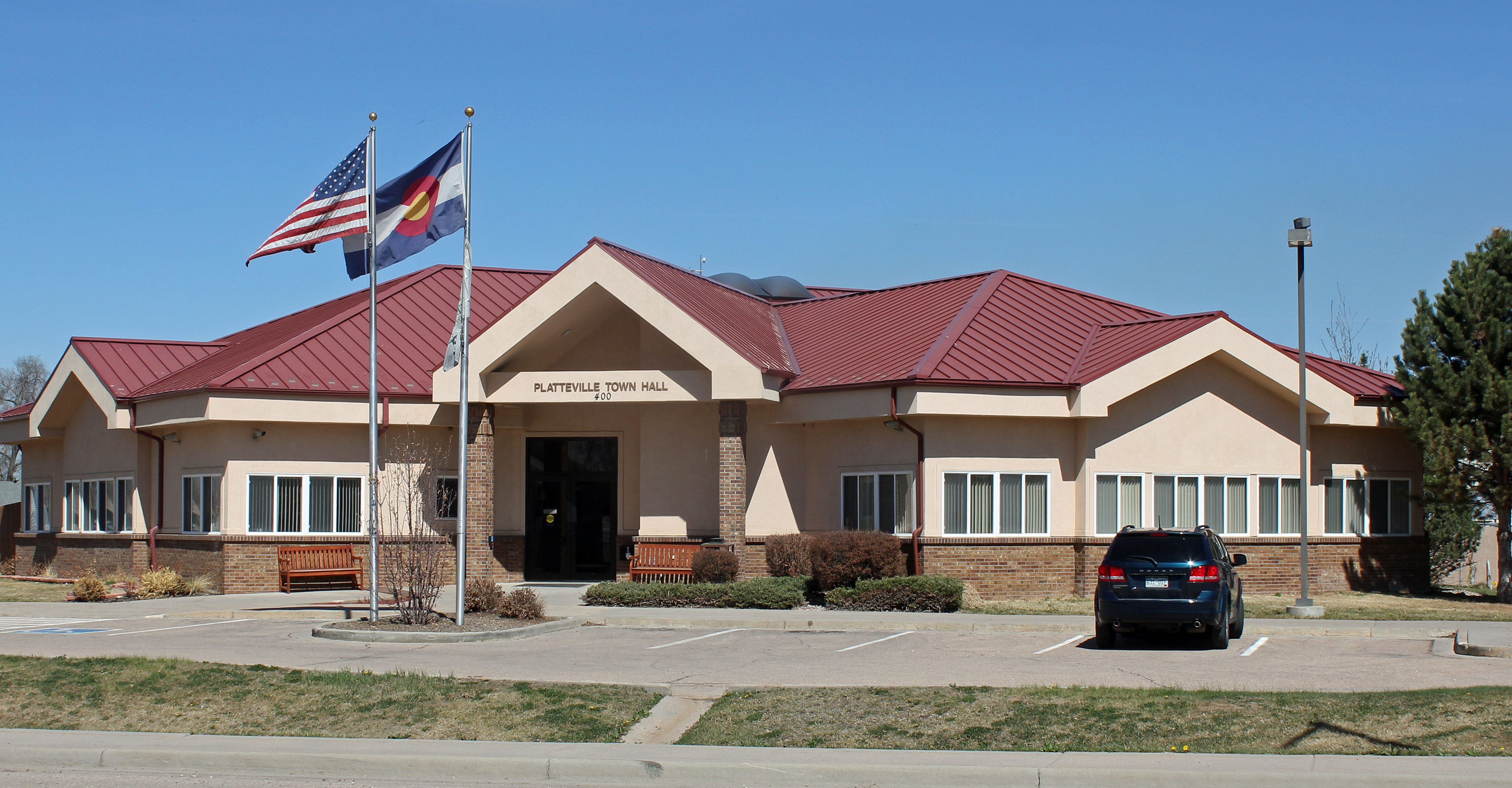 The Platteville, Colorado Town Hall, located at 400 Grand Avenue in Platteville, Colorado.